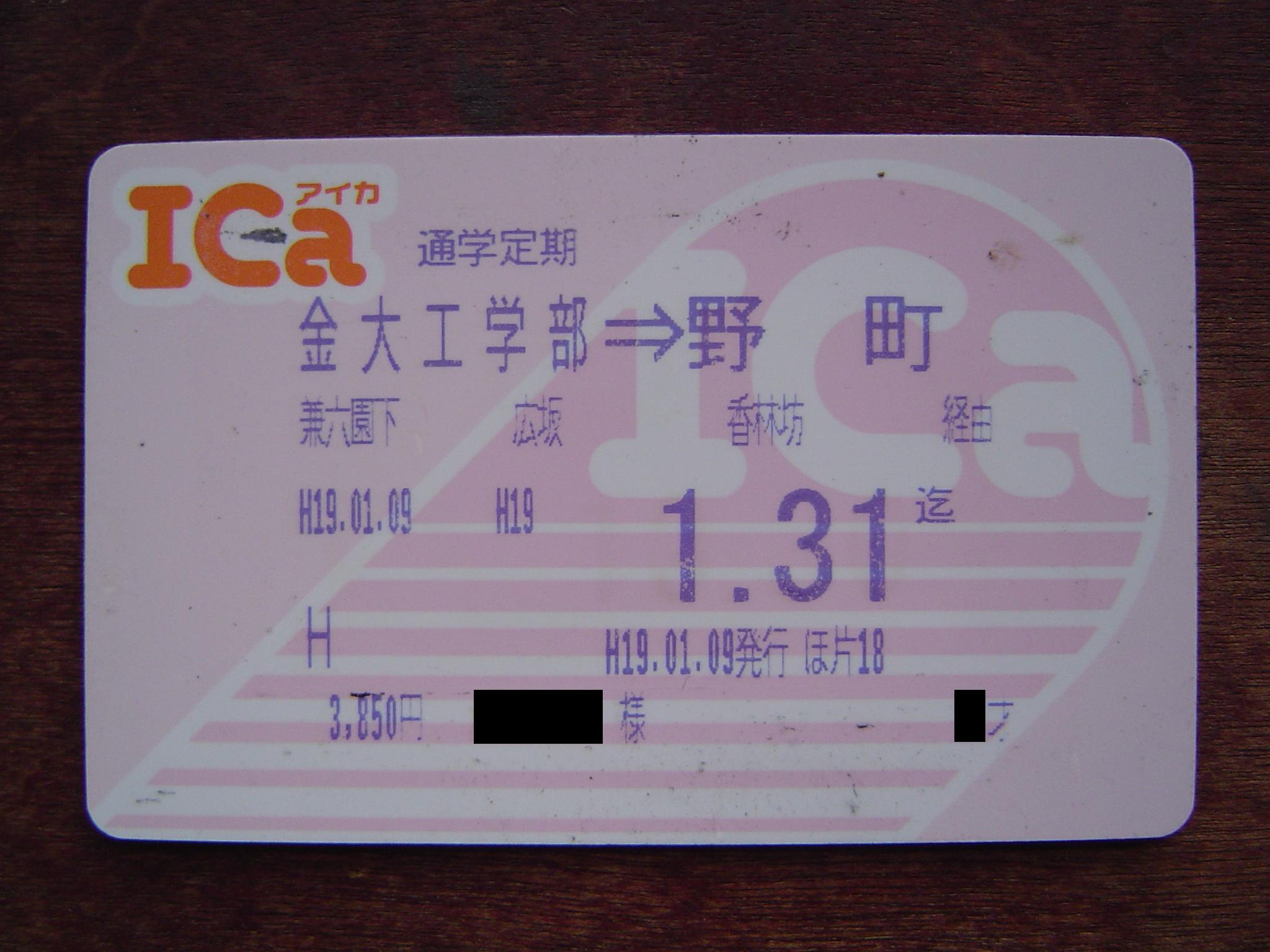 ICa card (Smart card, The season ticket of Hokuriku Railroad)